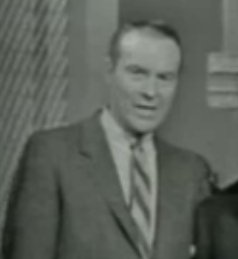 Screen capture from the above link, Edwards hosting an episode of This Is Your Life with Lou Costello. Taken at the 8:17 mark in the above film.